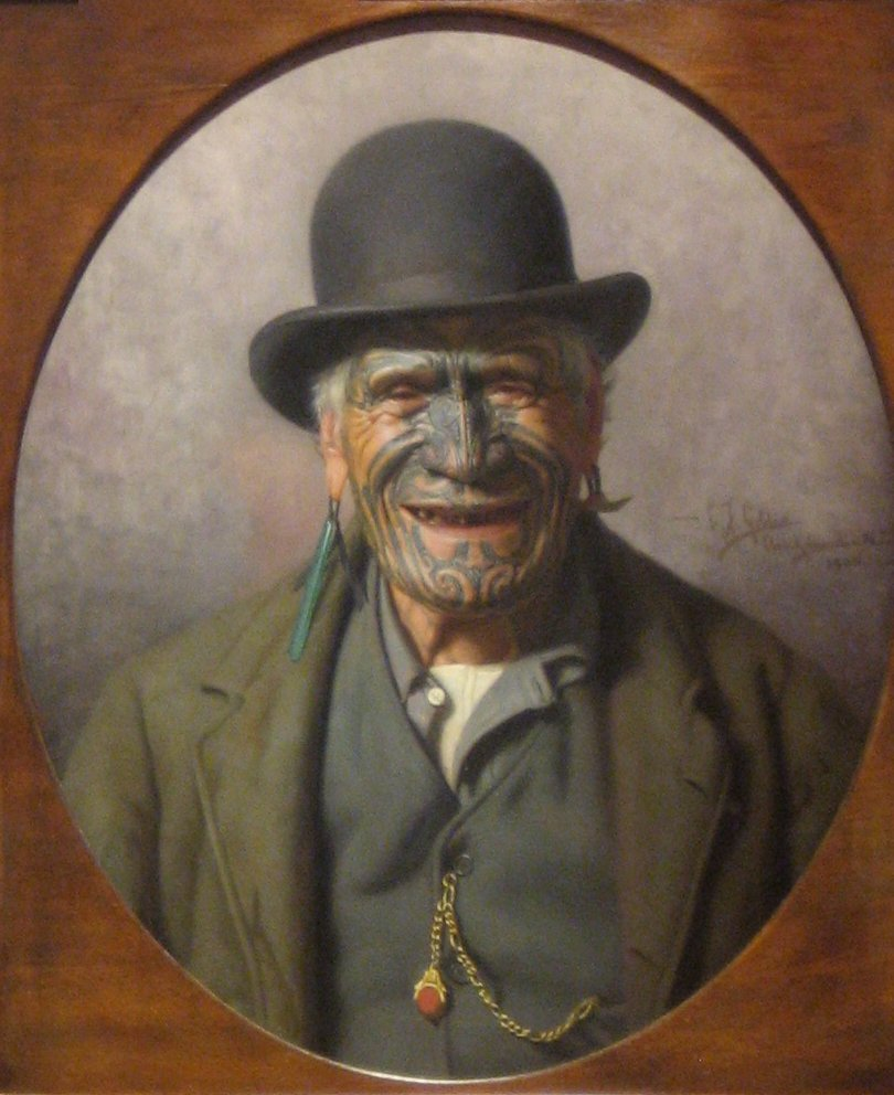 All 'e Same t'e Pakeha (Te Aho-o-te-Rangi Wharepu, Ngati Mahuta), oil on canvas painting by Charles Goldie, 1905, Dunedin Public Art Gallery. Exhibited at the Auckland Society of Arts Exhibition, 12th July 1905. Described in New Zealand Illustrated Magazine , 1 August 1905, Page 351 as "...in which an old man is laughing at the thought of wearing an old "pot" hat and coat like a white man."